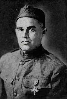 Privat (First Class) Sidney Herbert Hatch, World War One, decorated with the Distinguished Service Cross, athlet and medalwinner at the 1904 Olympic Games photography, adapted reproduction, no restrictions on use Copyright: free of charges